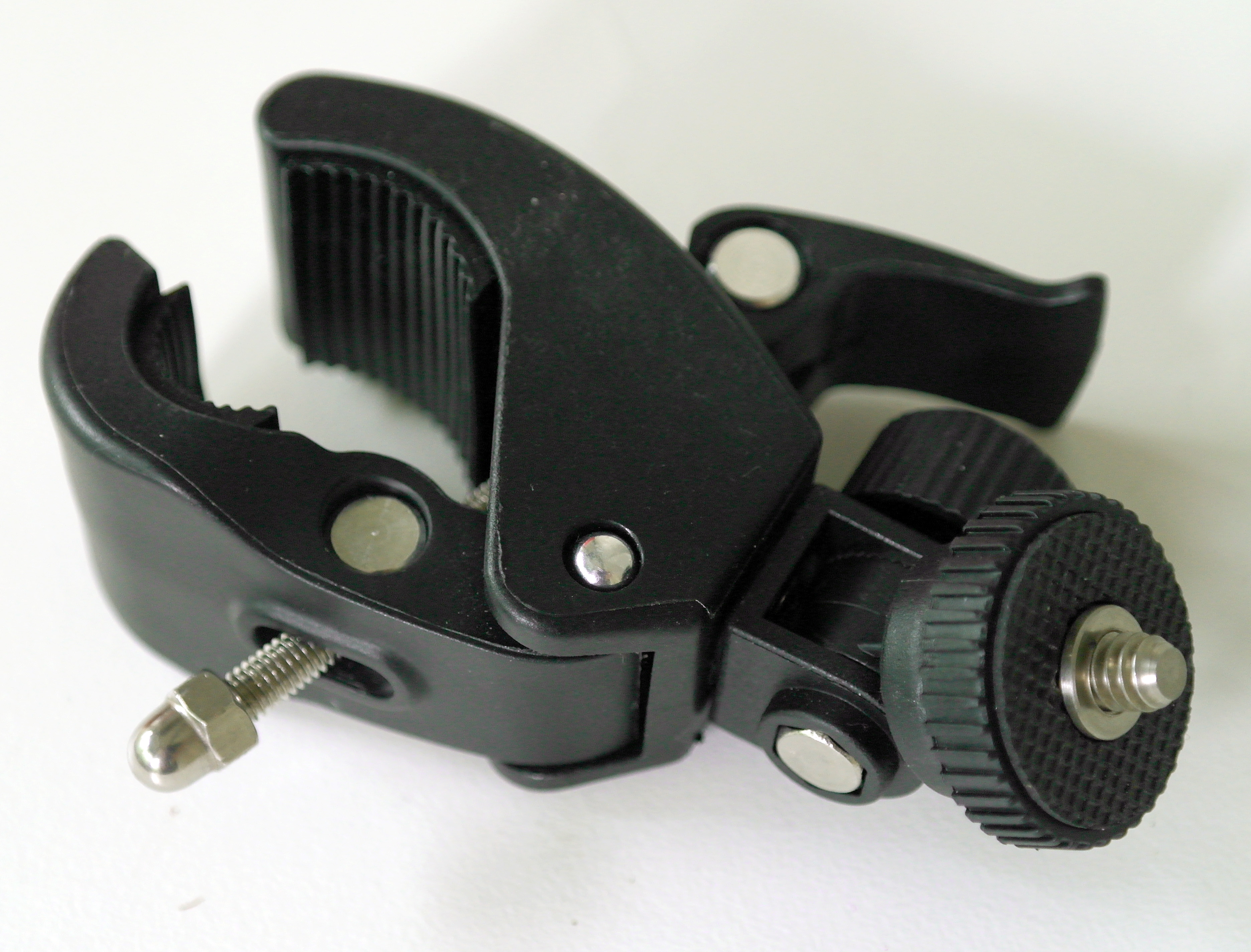 Clamp for action cameras.